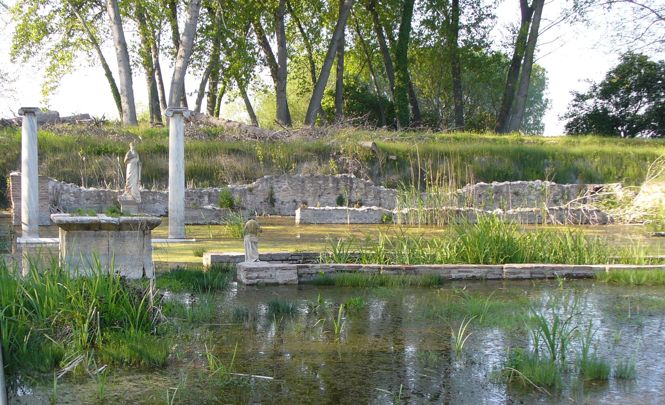 The sanctuary of Isis at Dion.